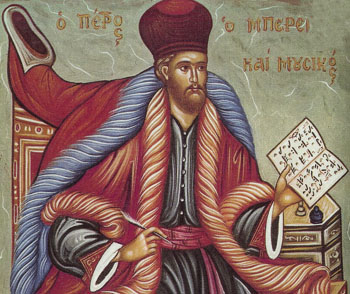 Illumination in an 18th-century Orthodox chant manuscript of the famous Ottoman Greek musician Petros Bereketis (approximately between 1665 and 1725), Protopsaltes at the Church St Constantine of Hypsomathia (Constantinople)